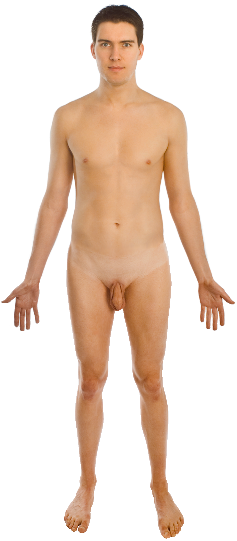 Human male body, seen in frontal or anterior view, standing in standard anatomical position. The model was 22 years old at caption.